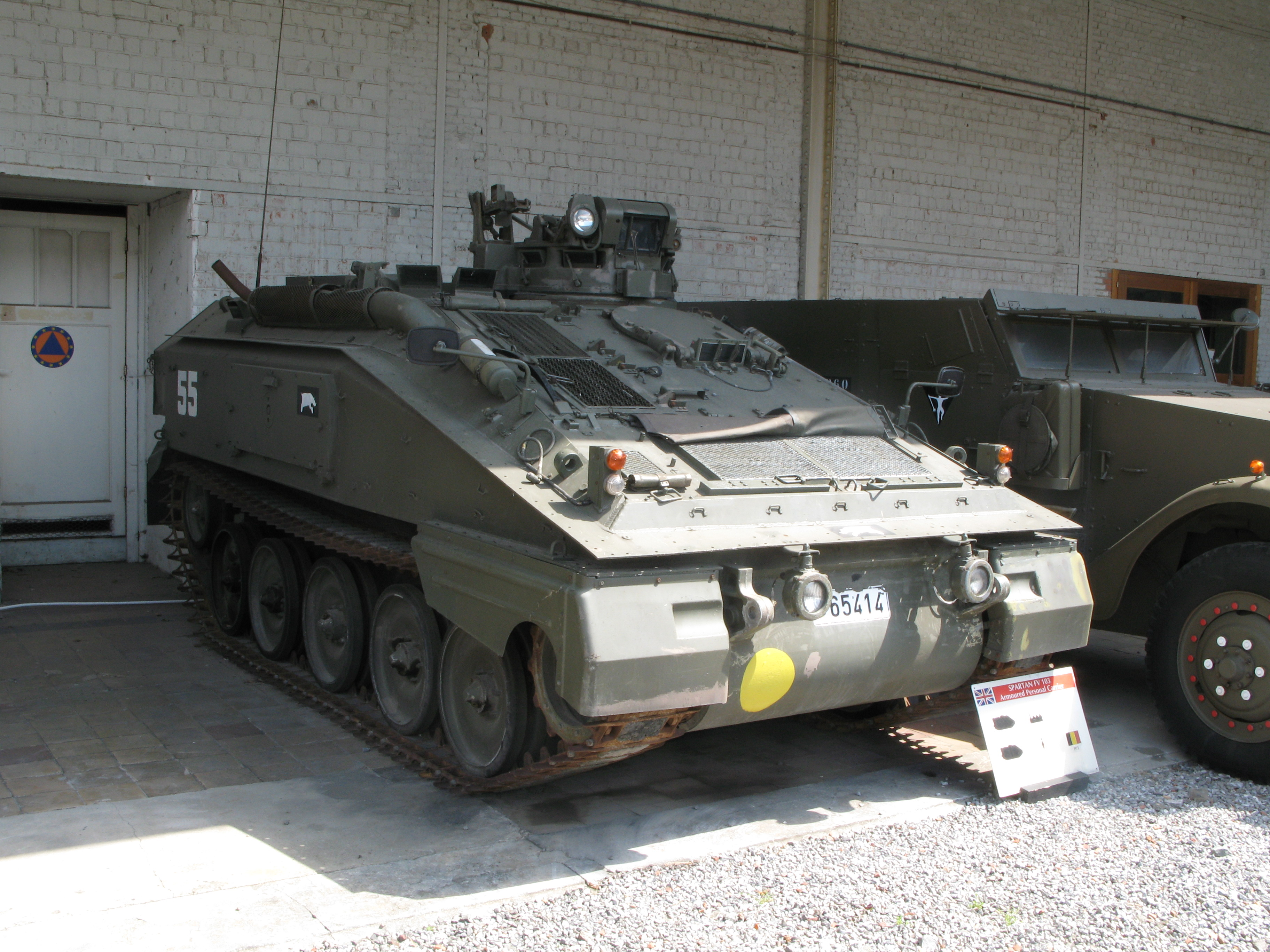 FV103 Spartan